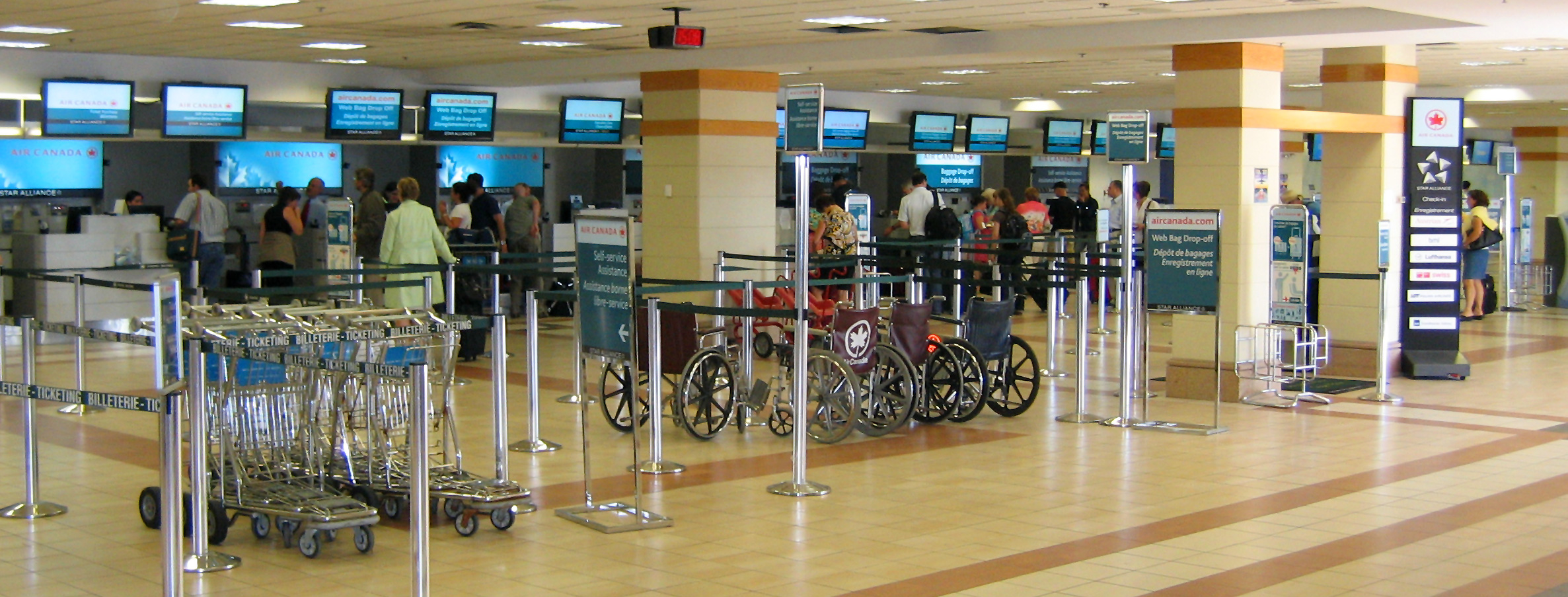 Ticket and Baggage area, Halifax International Airport